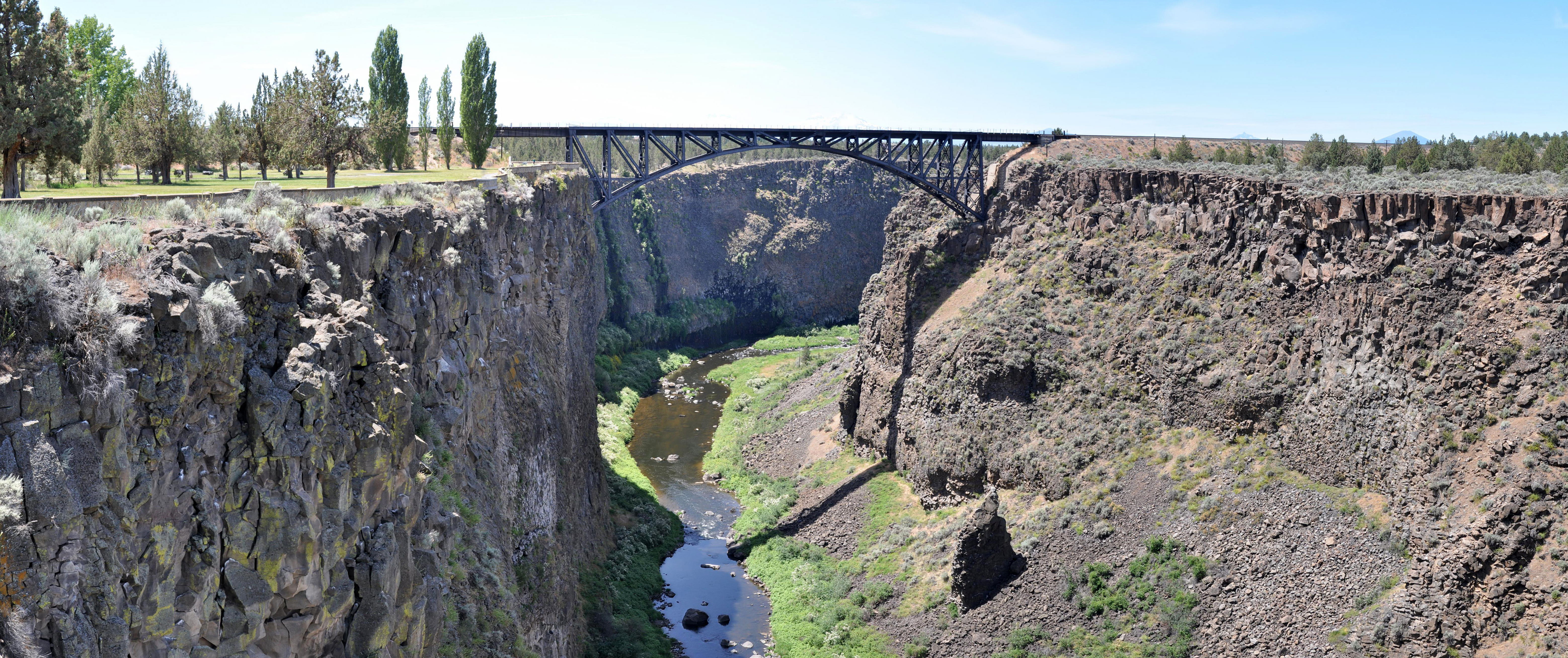 Panorama of Crooked River Canyon at Peter Skene Ogden State Scenic Viewpoint in the U.S. state of Oregon. View is to the west toward the Crooked River Railroad Bridge from the Crooked River High Bridge. Originally 16 vertical images.